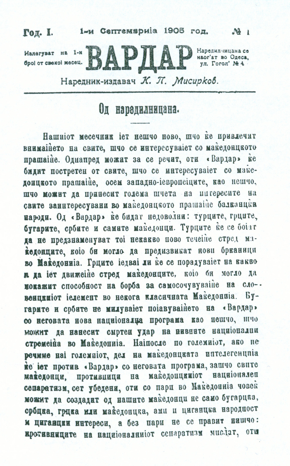 The cover page of the Macedonian magazine "Vardar" published by Krste Petkov Misirkov in Odesa on 1 September 1905.